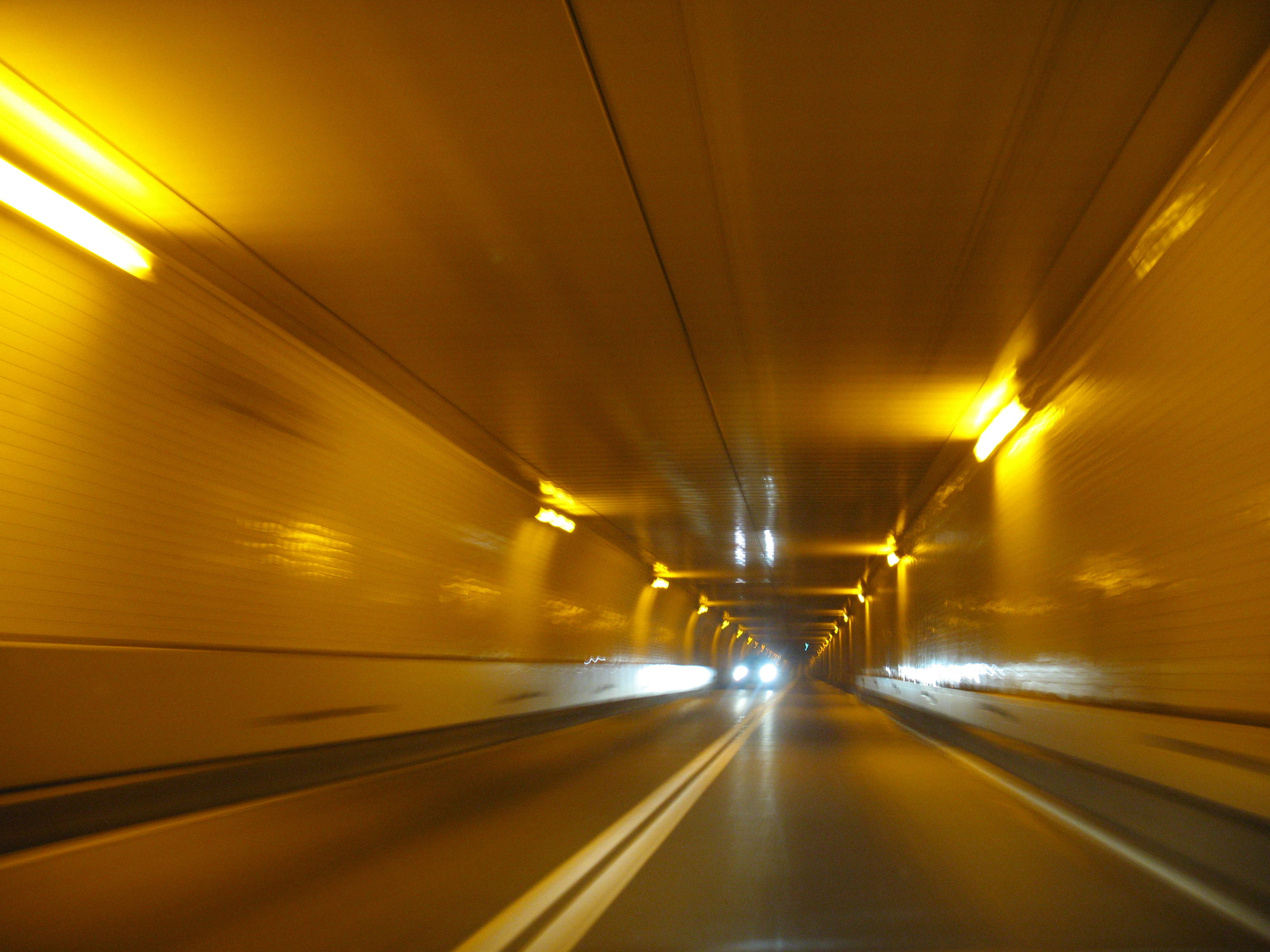 I-895 tunnel, traveling westbound, Baltimore, MD, USA - OpenStreetMap(Info)